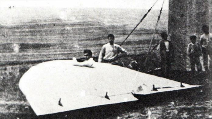 Cheranovskii BICh-1 glider